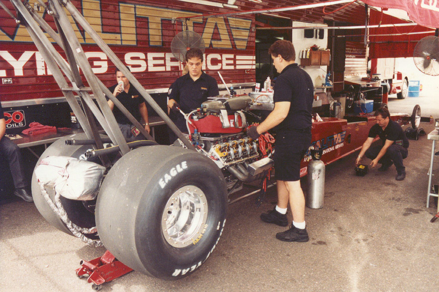 Scott Kalitta crew working on the racecar in this pit scene at Denver's Bandimere Speedway.Scott Kalitta